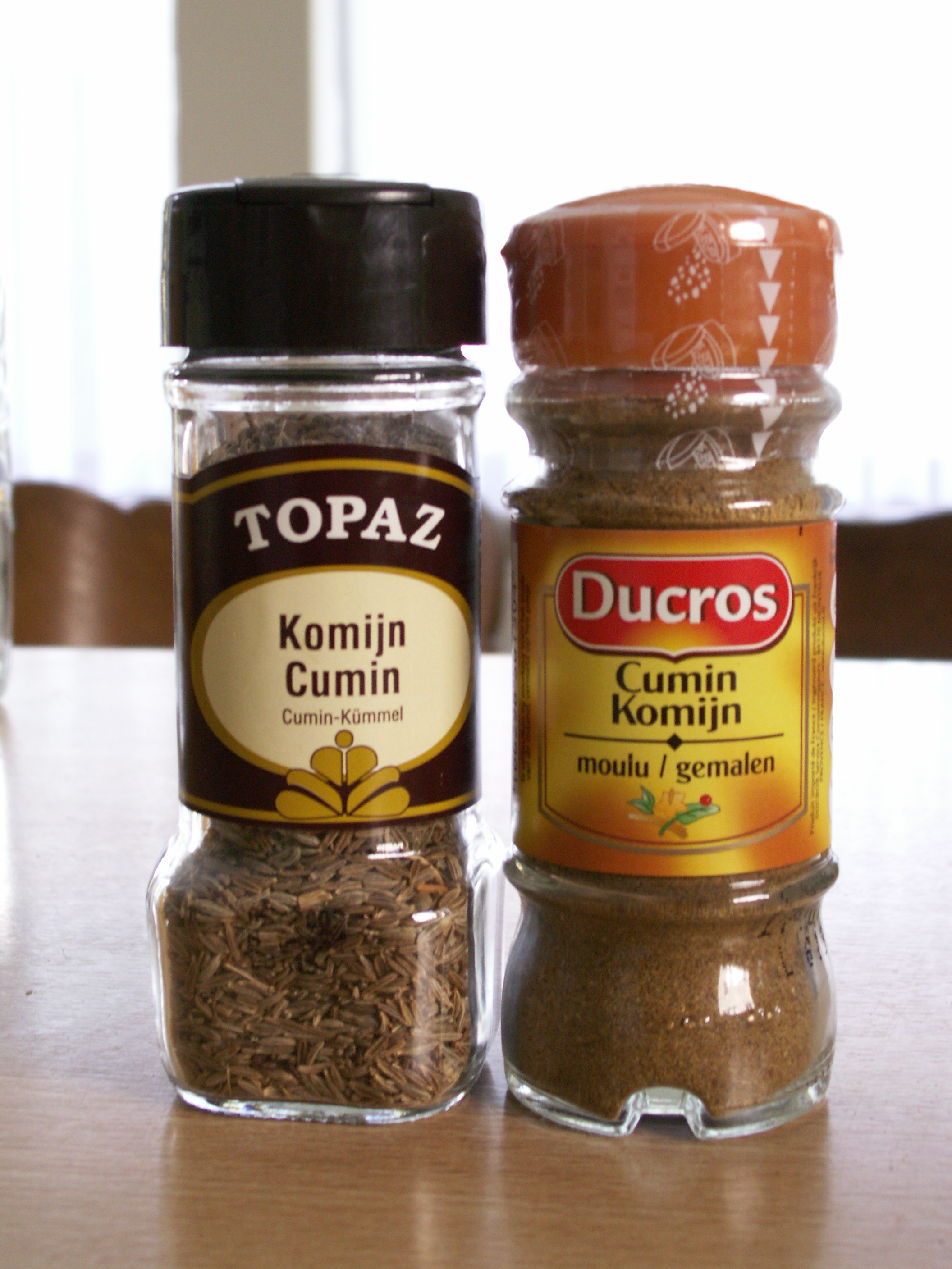 Whole and ground cumin seeds, in jars